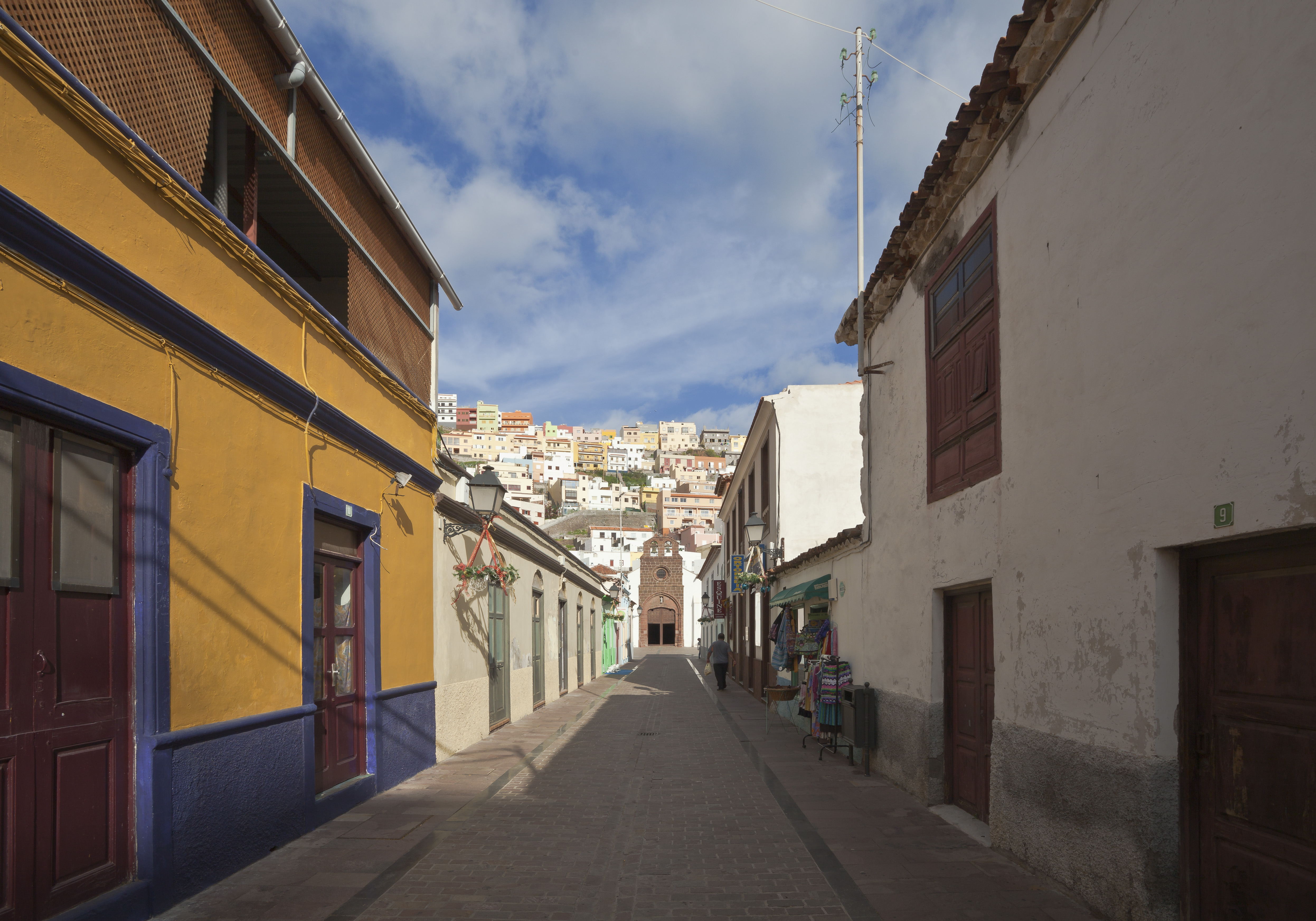 Avenue of Colón, San Sebastián de la Gomera, La Gomera, Spain